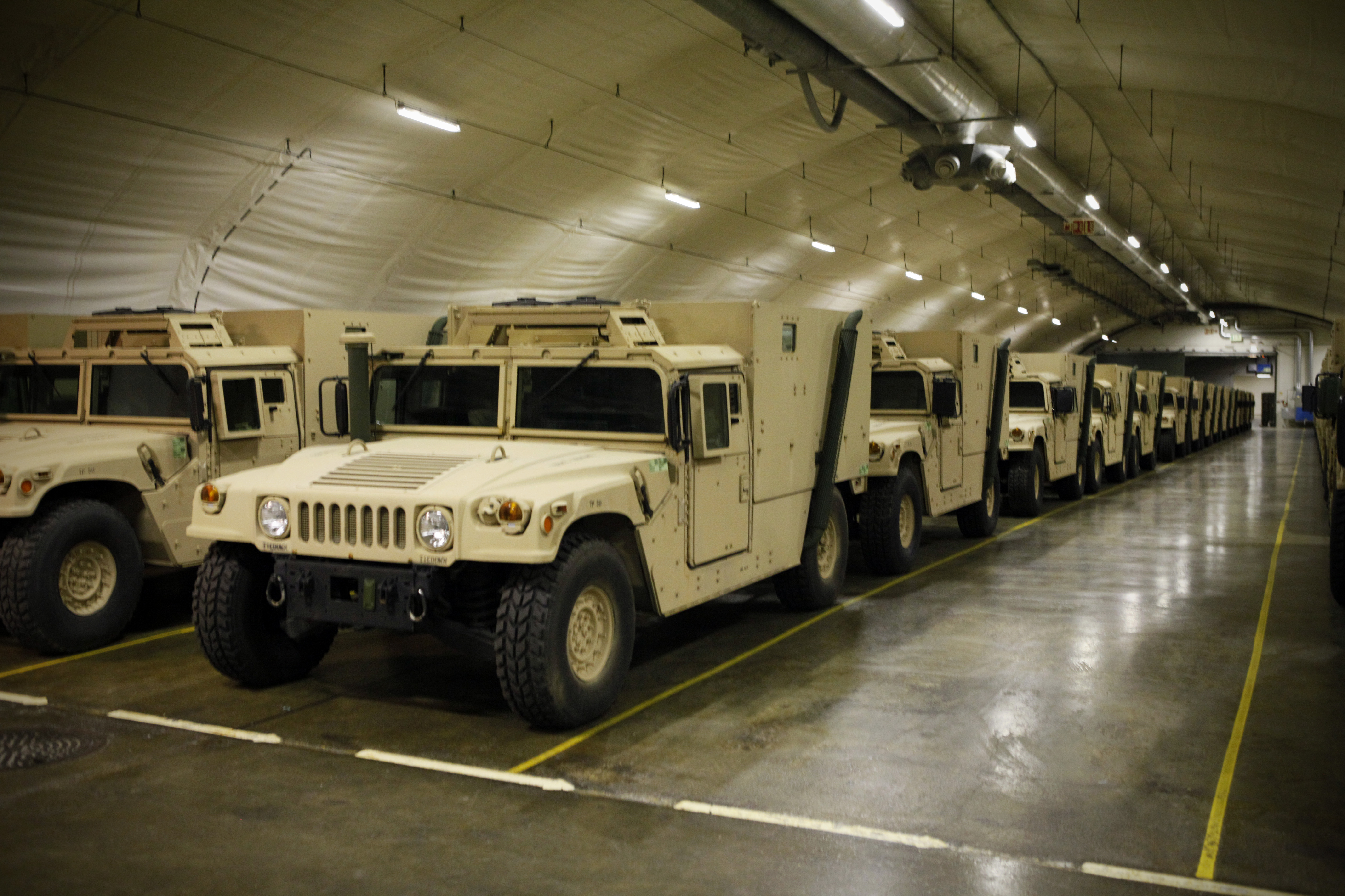 Humvees are stored inside the Frigaard Cave in central Norway. The cave is one of six caves that are part of the Marine Corps Prepositioning Program-Norway, which supports the equipping of Marine Expeditionary Brigade consisting of 15,000 Marines and with supplies for up to 30 days. (U.S. Marine Corps photo by Lance Cpl. Marcin Platek)